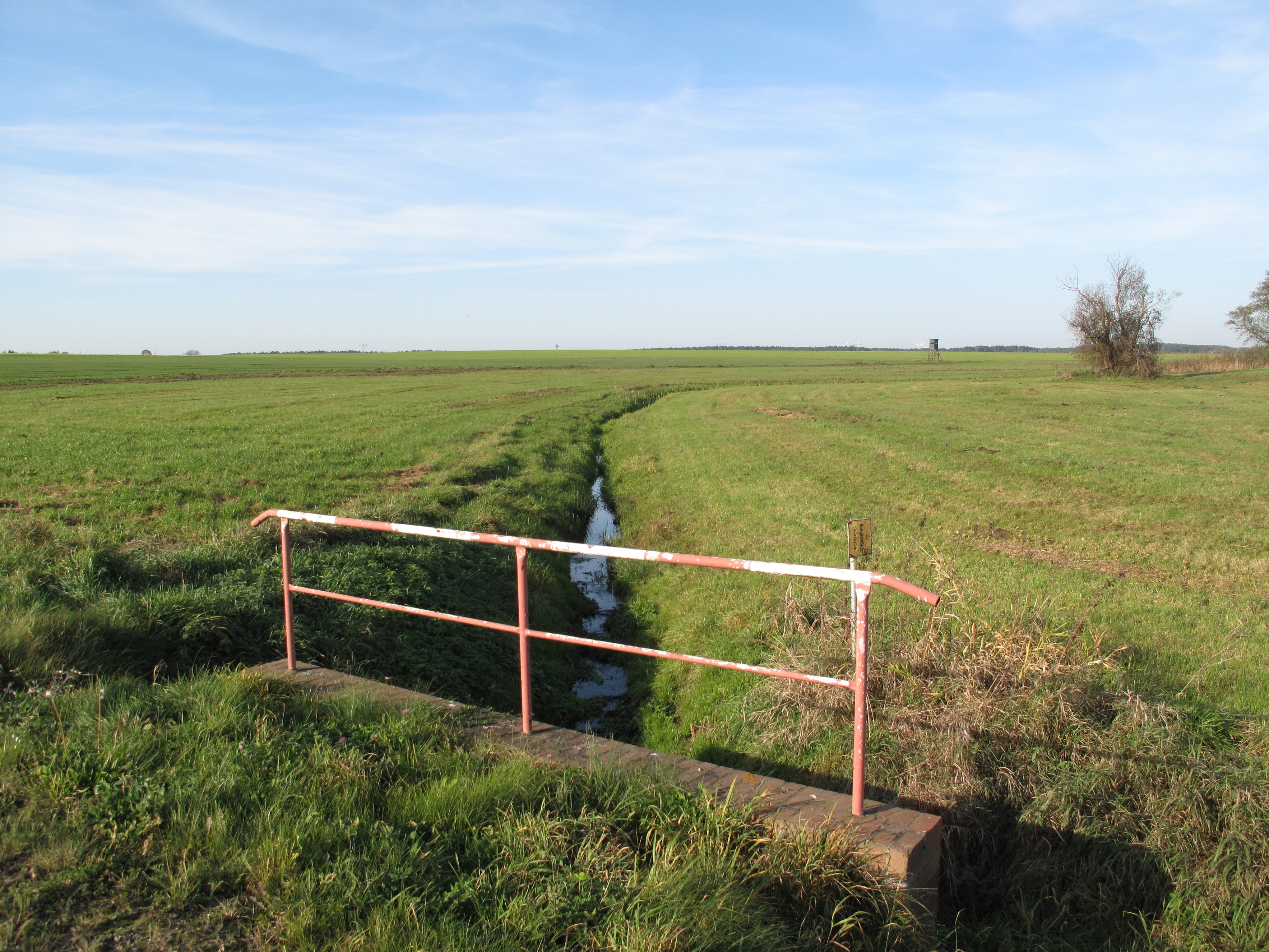 Görsdorf-Wulfersdorfer Fließ (stream) between the villages Görsdorf and Wulfersdorf (parts of Tauche) in the District Oder-Spree, Brandenburg, Germany.